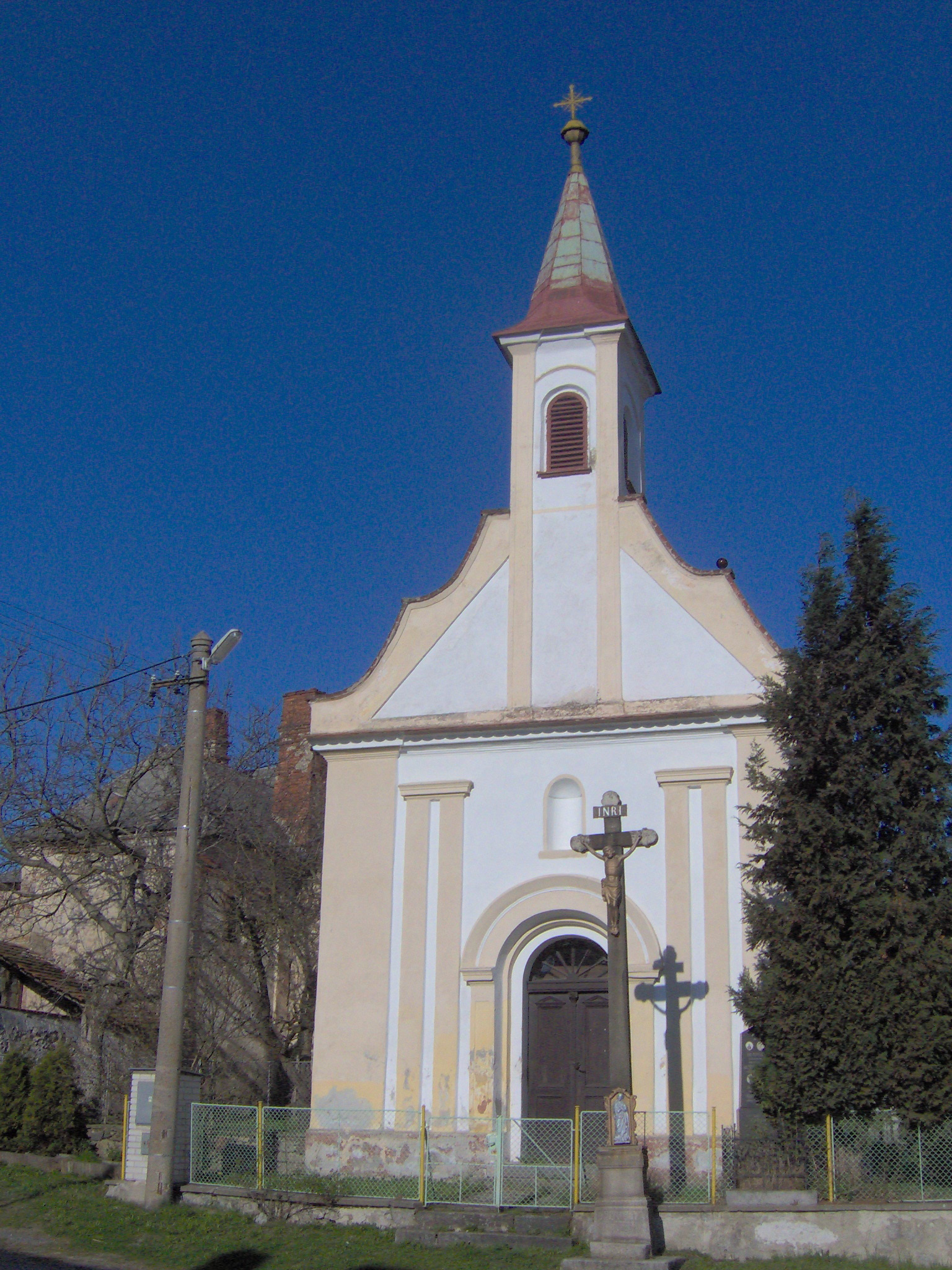 Chapel in Litochovice, Strakonice District, Czech republic